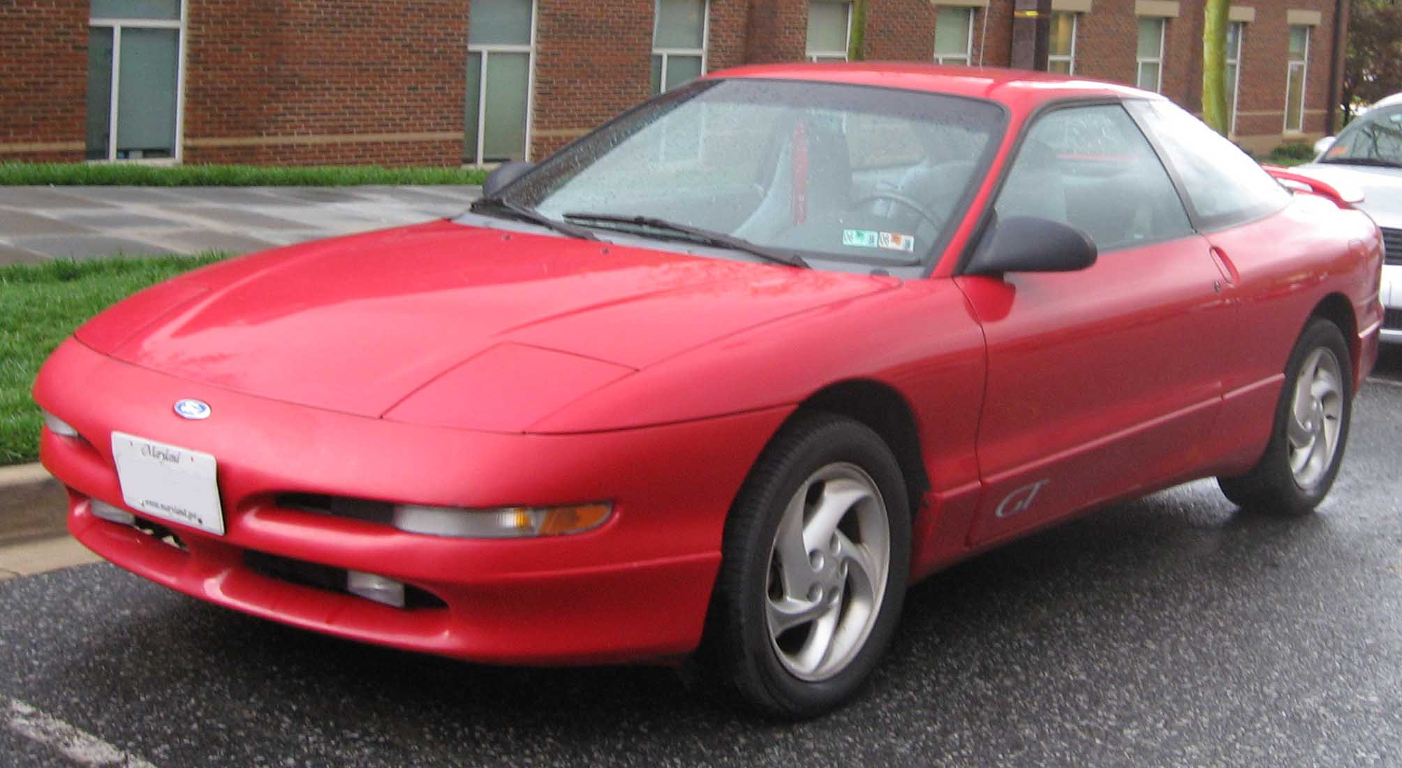 1993-1997 Ford Probe photographed in College Park, Maryland, USA.